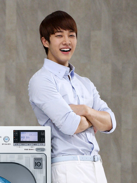 Li Ki-kwang crop. Derivative work of File:Lee Na Young and Lee Ki-kwang.jpg